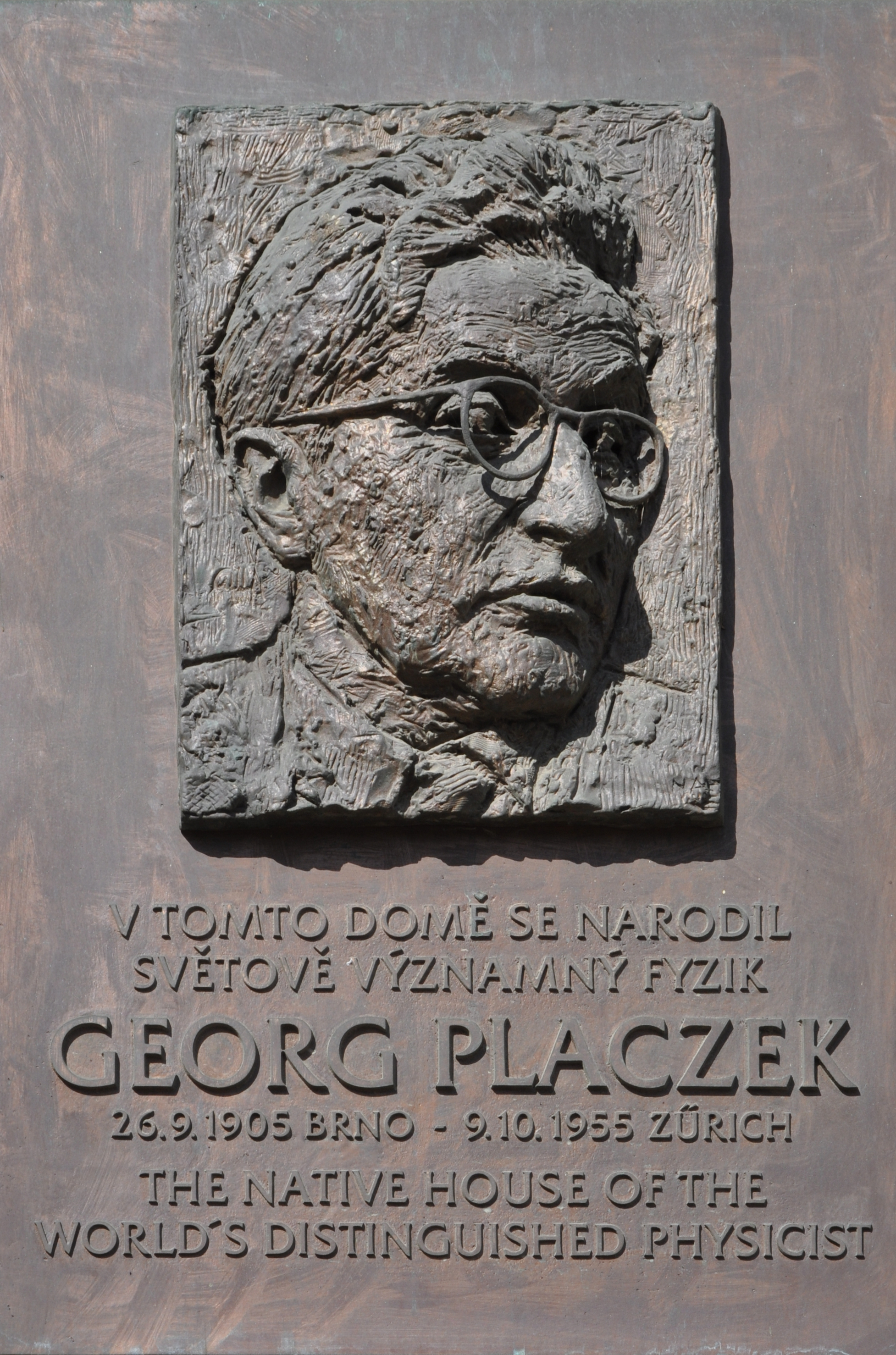 George Placzek memorial